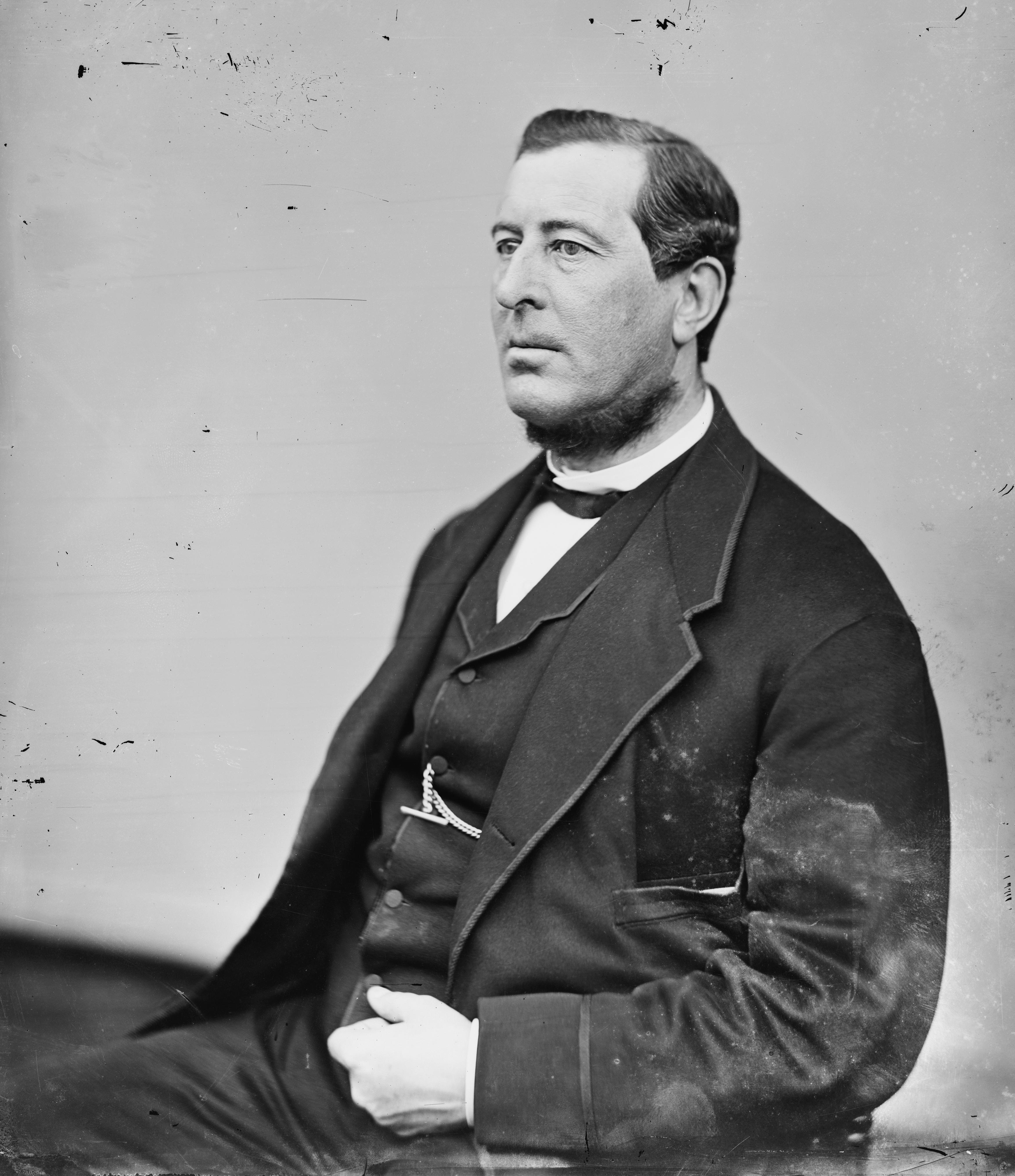 Daniel Johnson Morrell. Library of Congress description: "Morrell, Hon. Daniel Johnson, Rep of PA"